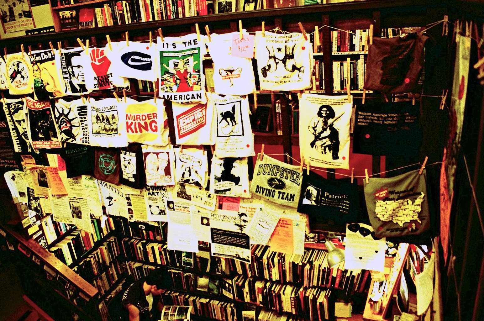 Interior of Left Bank Books, an anarchist bookshop/infoshop in Seattle, Washington in 2006. There's a sign that says something like 'if you want to steal, please do it from a chain store and not from a worker owned co-operative'